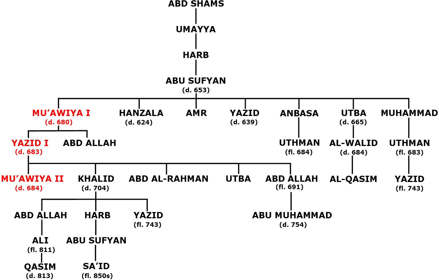 Genealogical tree of the Sufyanid branch of the Umayyad clan (Banu Umayya). The names highlighted in red indicate the three Sufyanid caliphs: Mu'awiya I, Yazid I and Mu'awiya II. The progenitor of the Sufyanids was Abu Sufyan Sakhr (d. 753), a grandson of Umayya ibn Abd Shams, the progenitor of the Umayyads. The Sufyanids, beginning with Mu'awiya I, were the ruling family of the Umayyad Caliphate from 661 until 684, when they were replaced by the Marwanid branch of the dynasty. Descendants of Abu Sufyan continued to play an active role in Syria's political affairs under the Marwanids (684-750) and well into the Abbasid era (post-750). Sources: Ahmed, Asad Q. (2010). The Religious Elite of the Early Islamic Ḥijāz: Five Prosopographical Case Studies. Oxford: University of Oxford Linacre College Unit for Prosopographical Research. Watt, W. Montgomery (1960). "Abu Sufyan". The Encyclopedia of Islam, New Edition, Volume I: A–B. Leiden and New York: BRILL. p. 151. The History of al-Tabari, vols. 18–19, 26, 31–32, SUNY Press Bernheimer, Teresa. The Alids: The First Family of Islam, 750–1200, Edinburgh University Press, p. 41, note 31. Della Vida, Giorgio Levi (2000). "Umayya b. Abd Shams". In Bearman, P. J.; Bianquis, Th.; Bosworth, C. E.; van Donzel, E.; Heinrichs, W. P. (eds.). The Encyclopaedia of Islam, New Edition, Volume X: T–U. Leiden: E. J. Brill. pp. 837–838 Bosworth, C.E. (1991). "Mu'awiya II". The Encyclopaedia of Islam, New Edition, Volume VII: Mif–Naz. Leiden: E. J. Brill. pp. 268–269